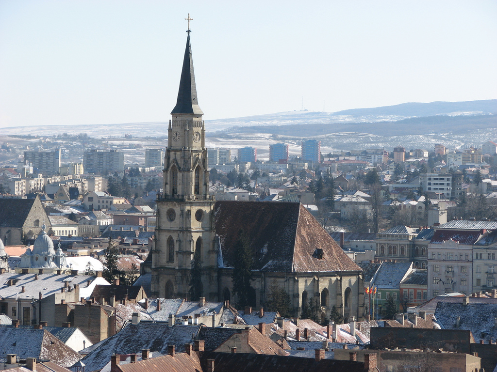 Centre of Cluj-Napoca, Romania, dominated by St. Michael's Church (Roman Catholic)